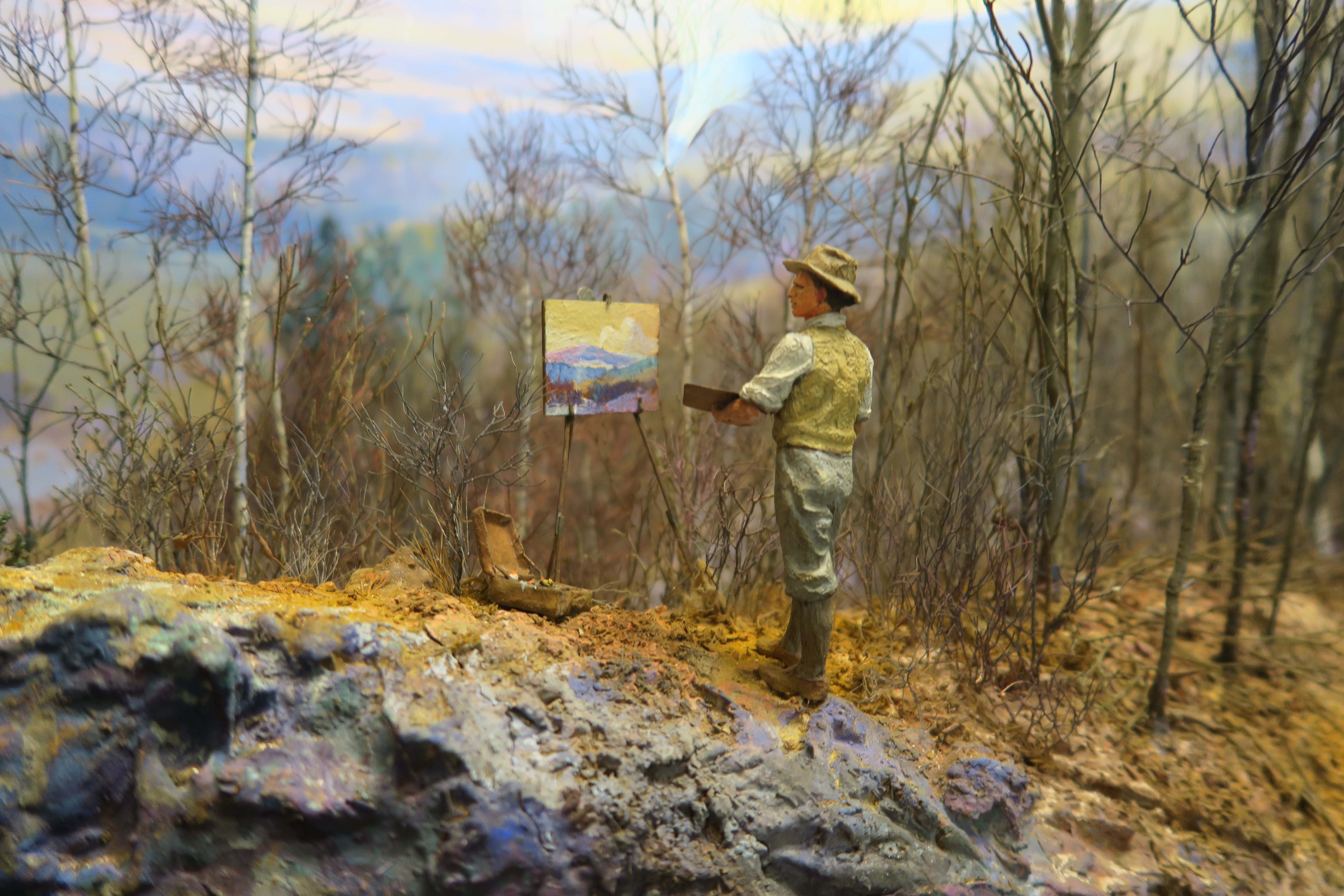 Detail of Diorama, Fisher Museum, Harvard Forest, Petersham Massachusetts